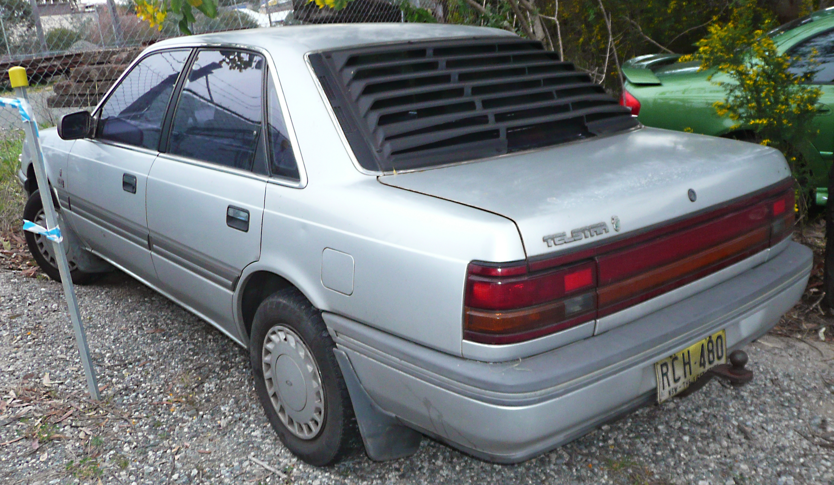 1987–1989 Ford Telstar (AT) Ghia sedan. Photographed in Sutherland, New South Wales, Australia.